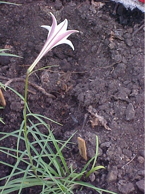 Lilium formosanum var. pricei This work is free and may be used by anyone for any purpose. If you wish to use this content, you do not need to request permission as long as you follow any licensing requirements mentioned on this page.